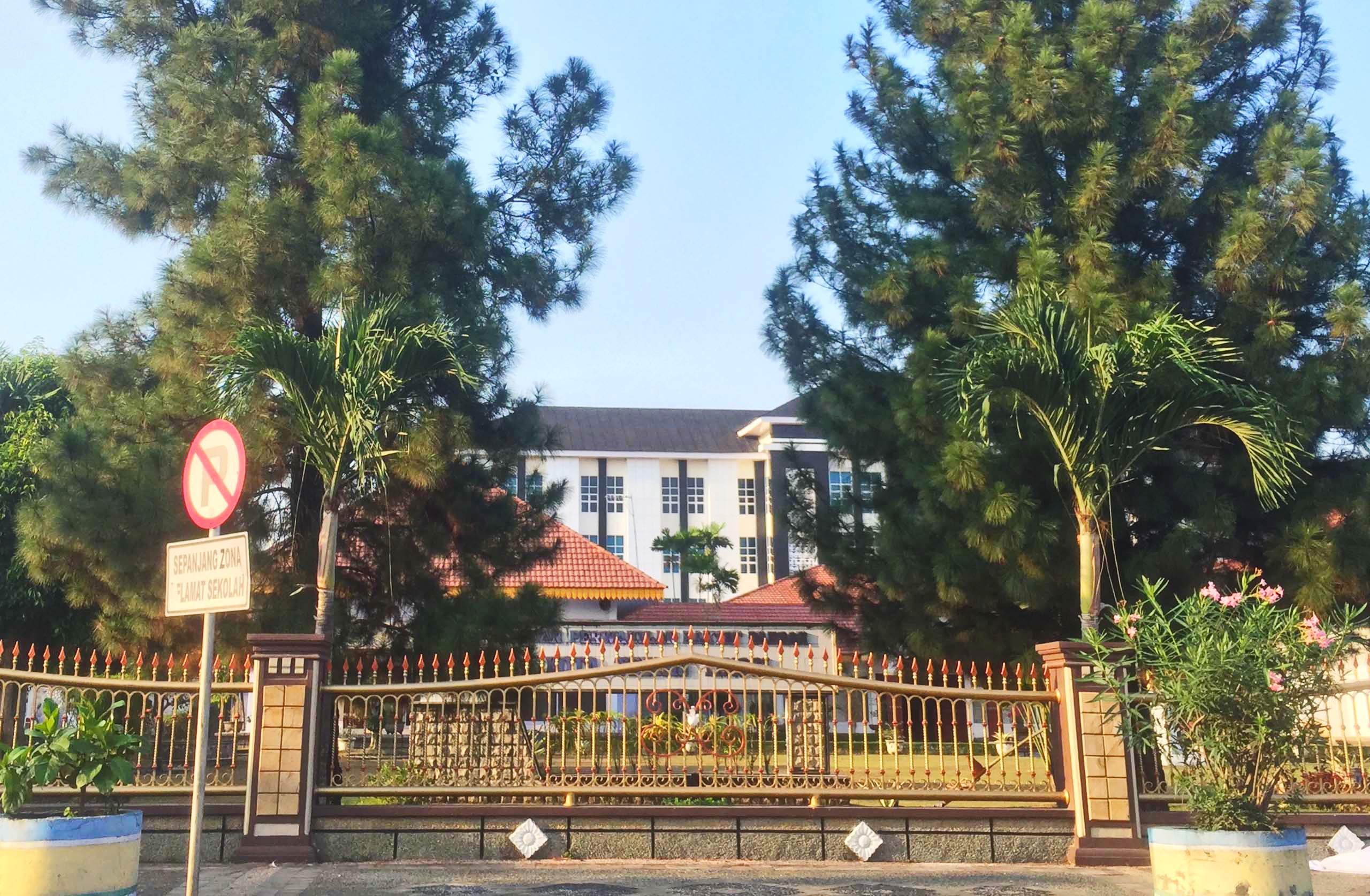 Office of DPRD Tebing Tinggi, Sumatra Utara